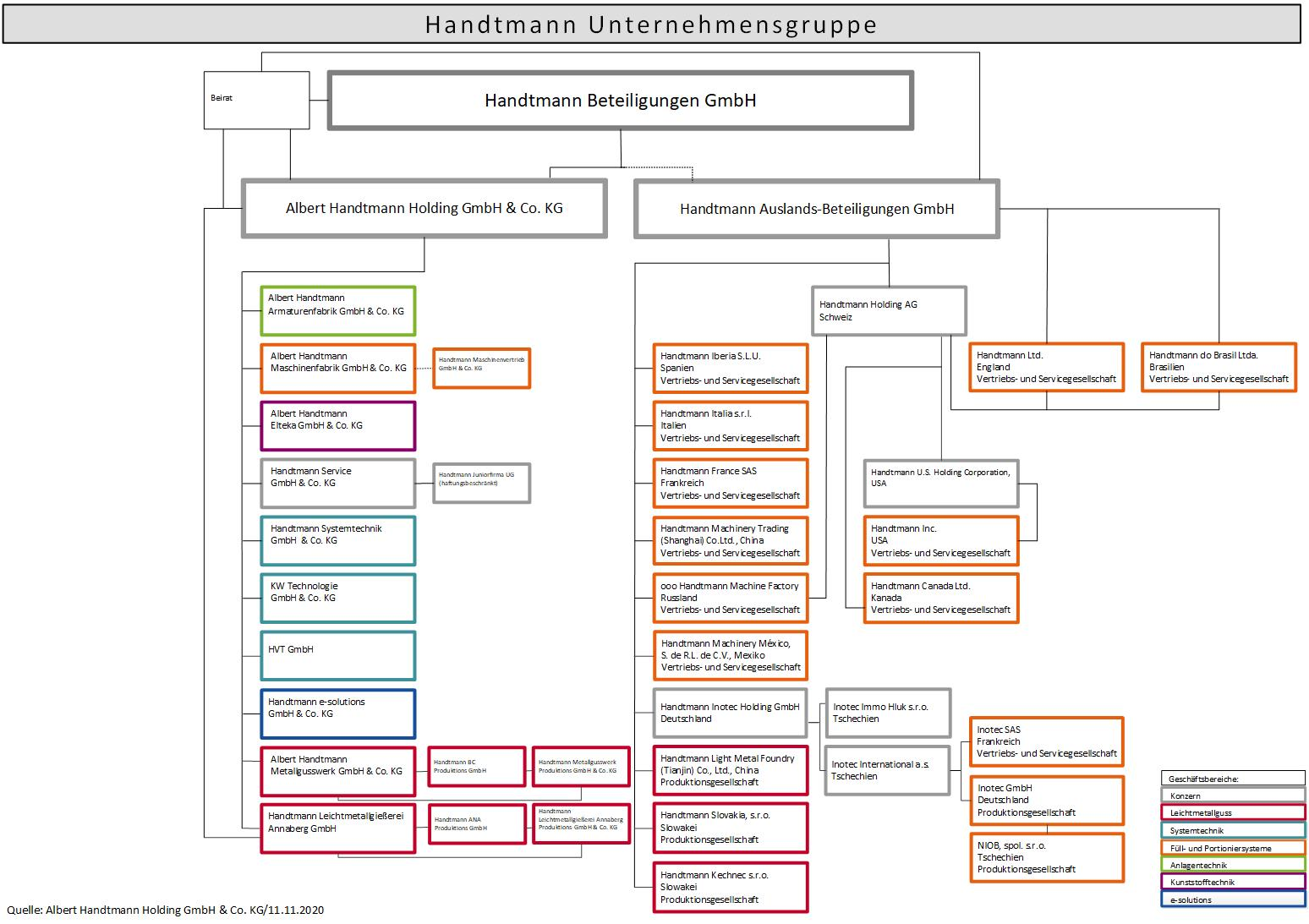 Organigram of the Handtmann Group of companies - World. As of Sept. 2017.